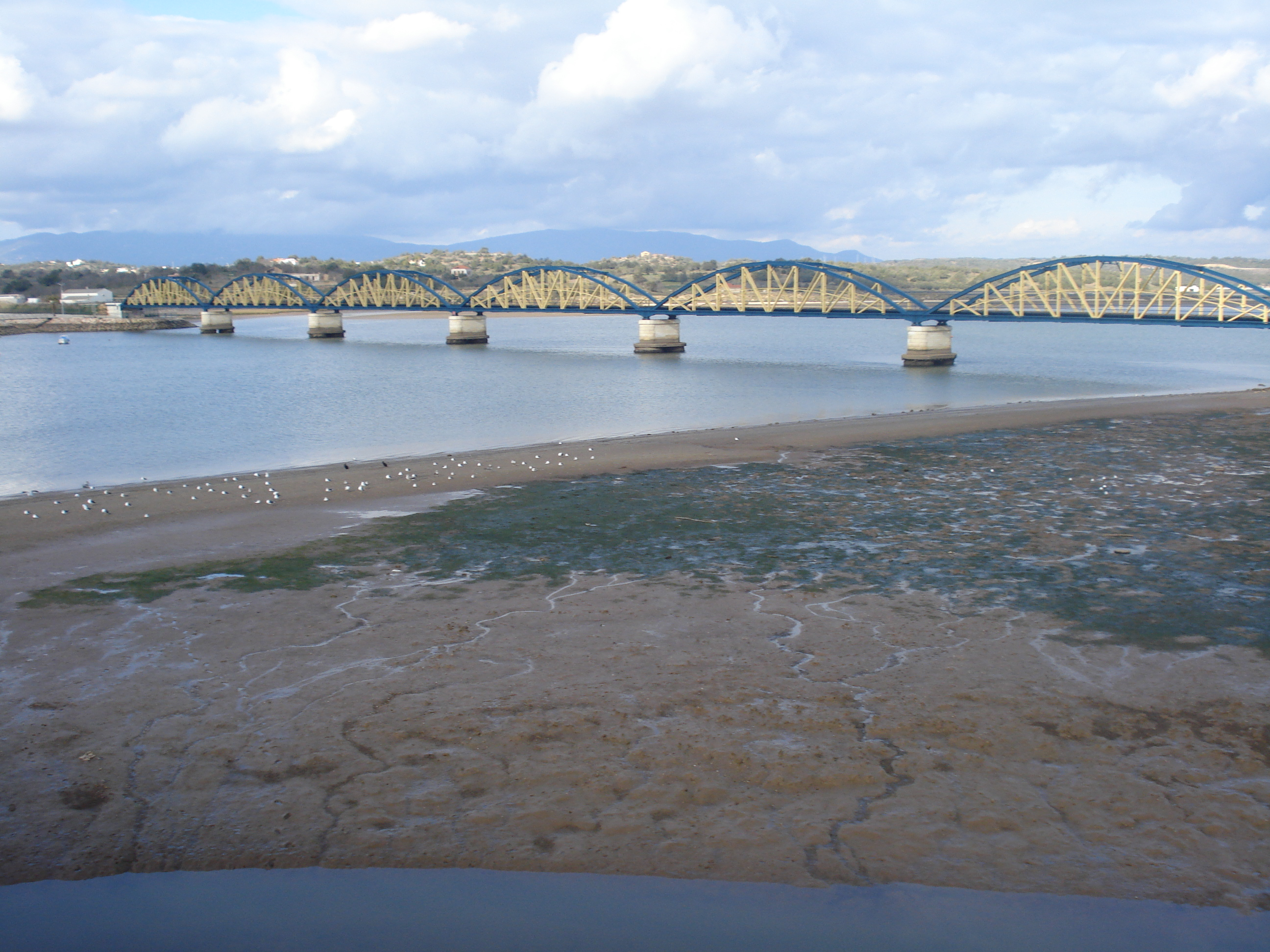 The railway bridge over the Arade River between Portimão (left) and Parchal in Portugal. Viewed from 37°08′18″N 8°31′42″W / 37.138288°N 8.528395°W looking north. More images.